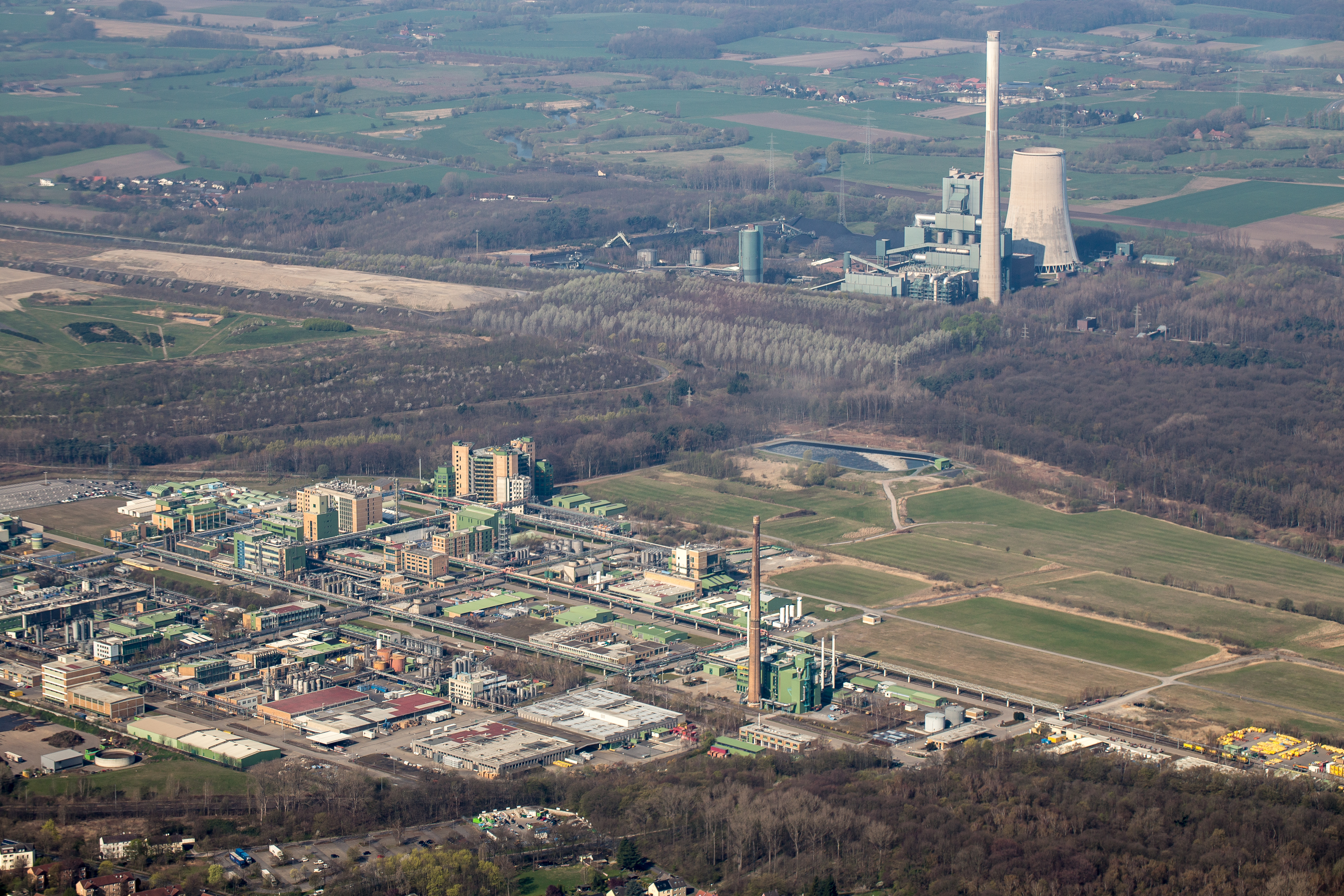 Aerial of industrial sites in Bergkamen, Germany. The plant in the foreground belongs to Bayer Healthcare while the power plant Bergkamen is visible in the background.